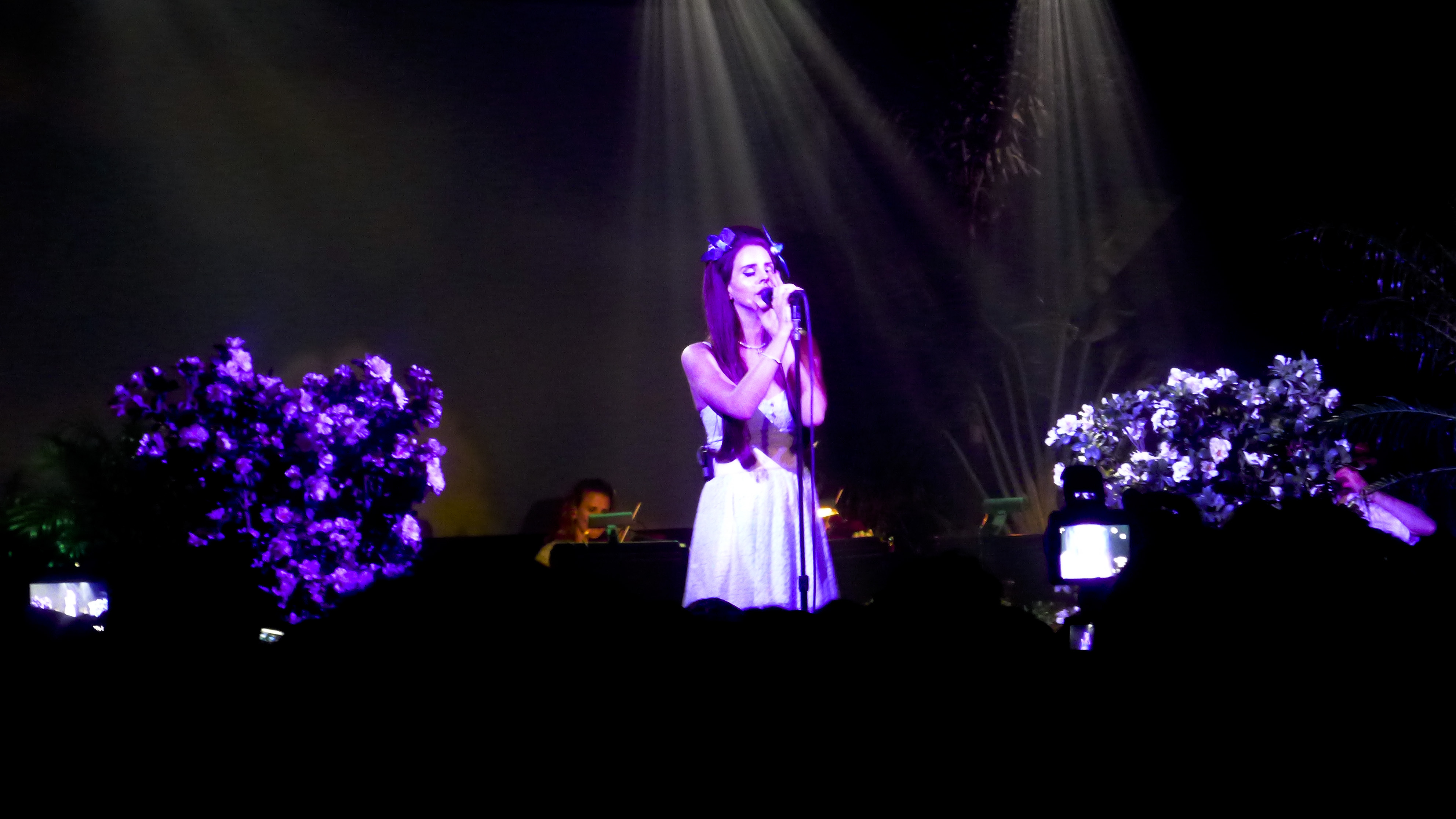 Lana Del Rey performing at Irving Plaza